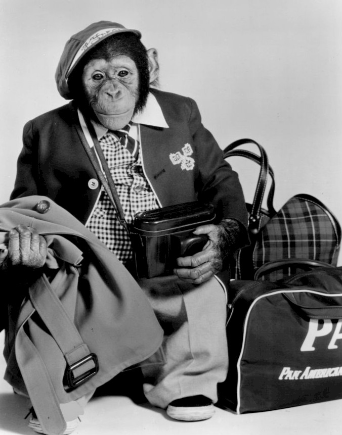 Today show mascot J. Fred Muggs sets off on his air tour around the world in 1954.